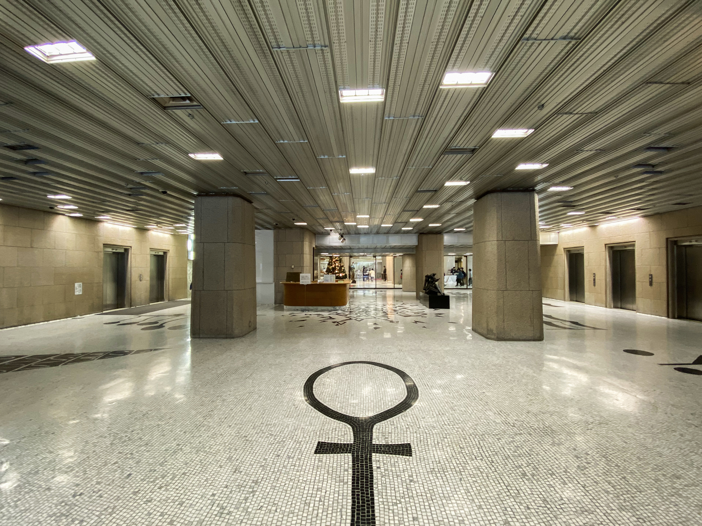 Nissay Theatre Office Lobby